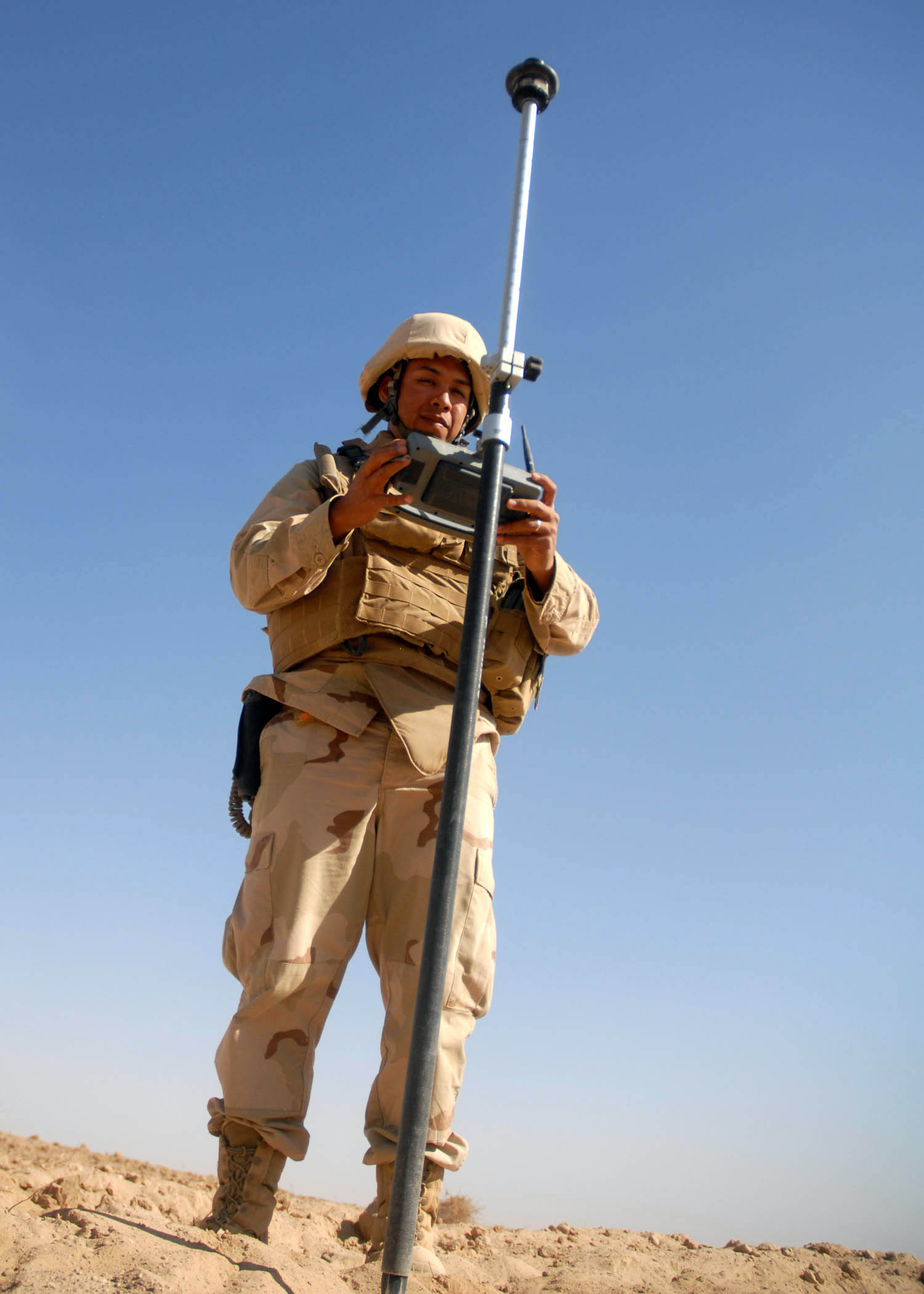 090929-N-9564W-106 HELMAND PROVINCE, Afghanistan (Sept. 29, 2009) Engineering Aid 2nd Class Adolfo Valdez, from San Diego, Calif., assigned to Headquarters Company of Naval Mobile Construction Battalion (NMCB) 74, records topographical data using a prism pole with a data collection attachment. Valdez and his team are conducting a topographical survey at the Camp Leatherneck expansion site.